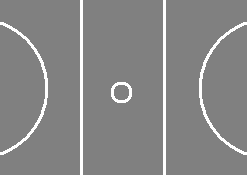 I created this image, a netball court. Not to scale. Grey background. Created in MSPaint.